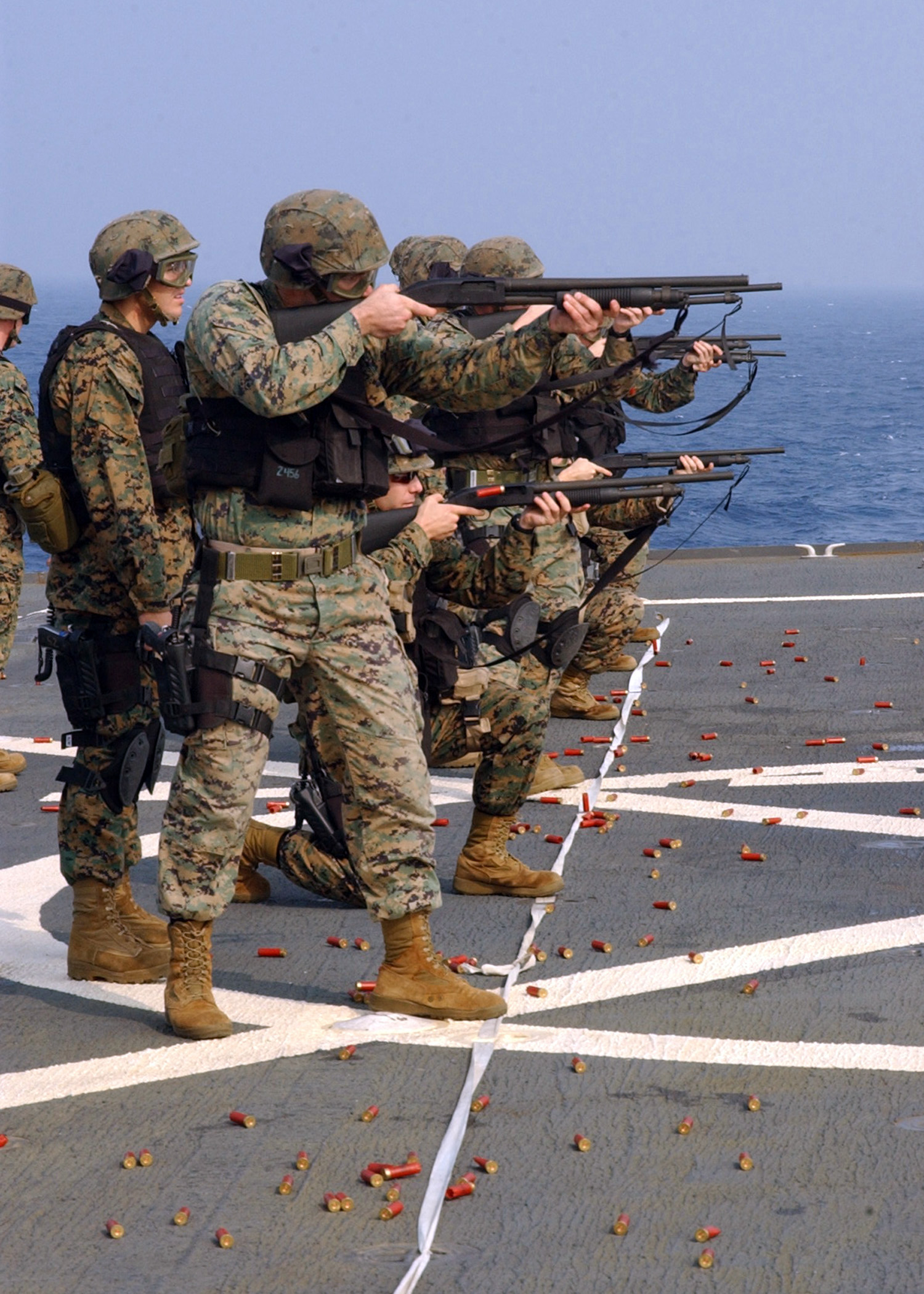 Western Pacific Ocean (Nov. 2, 2004) – U.S. Marines assigned to Commander, Seventh Fleet, Fleet Anti-terrorism Security Team (FAST), Third Platoon, familiarize themselves with the M590 shotgun aboard USS Blue Ridge (LCC 19), firing from the helipad near the stern of the ship. The M590 is a magazine feed, manually operated pump action, smoothbore gun. U.S. Navy Photo by Photographer's Mate Second Class Chantel M. Clayton (RELEASED)